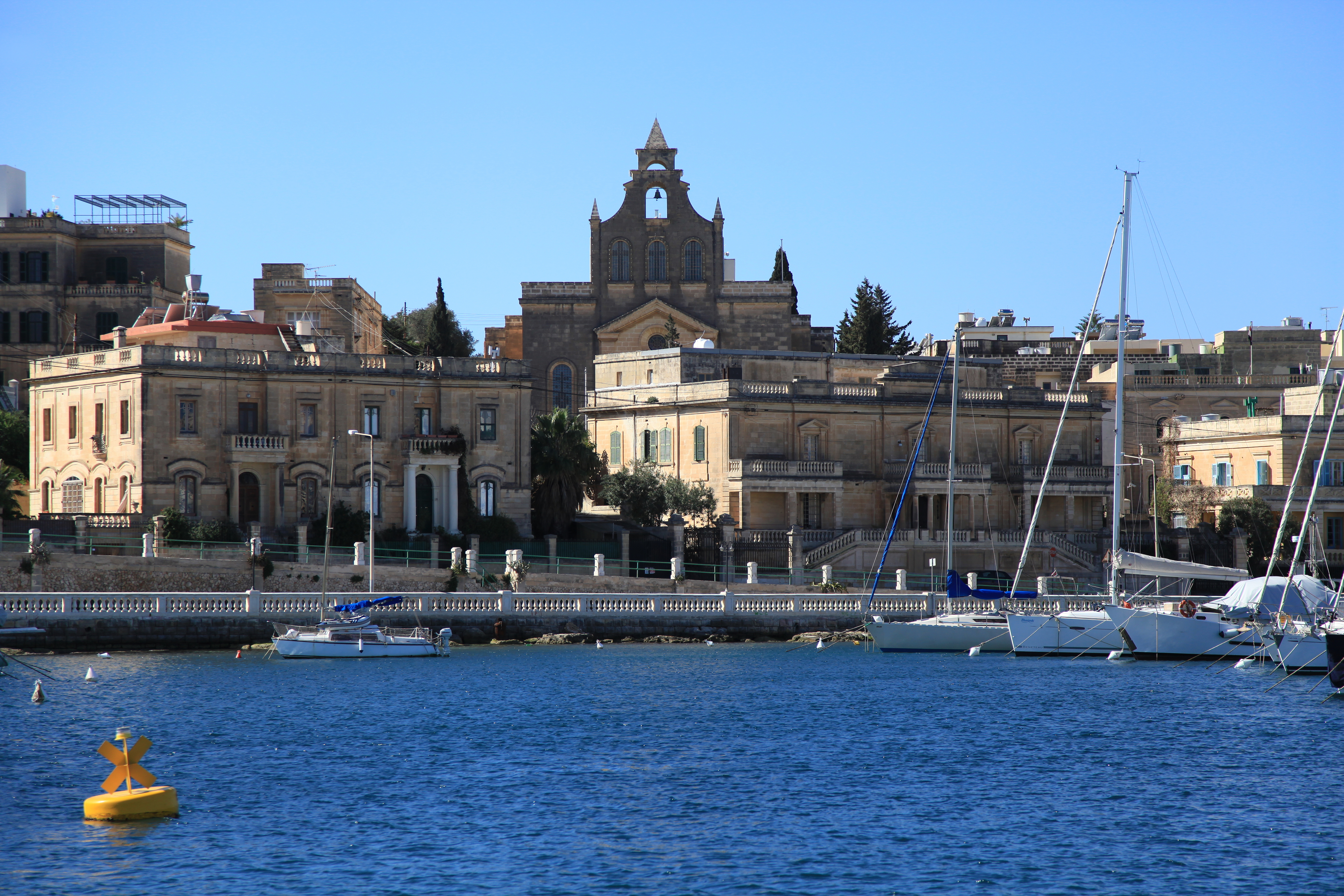 View from a Malta sightseeing two harbours cruise boat to Ix-Xatt Ta' Xbiex and Ir-Rampa Ta' Xbiex in Ta' Xbiex, Malta